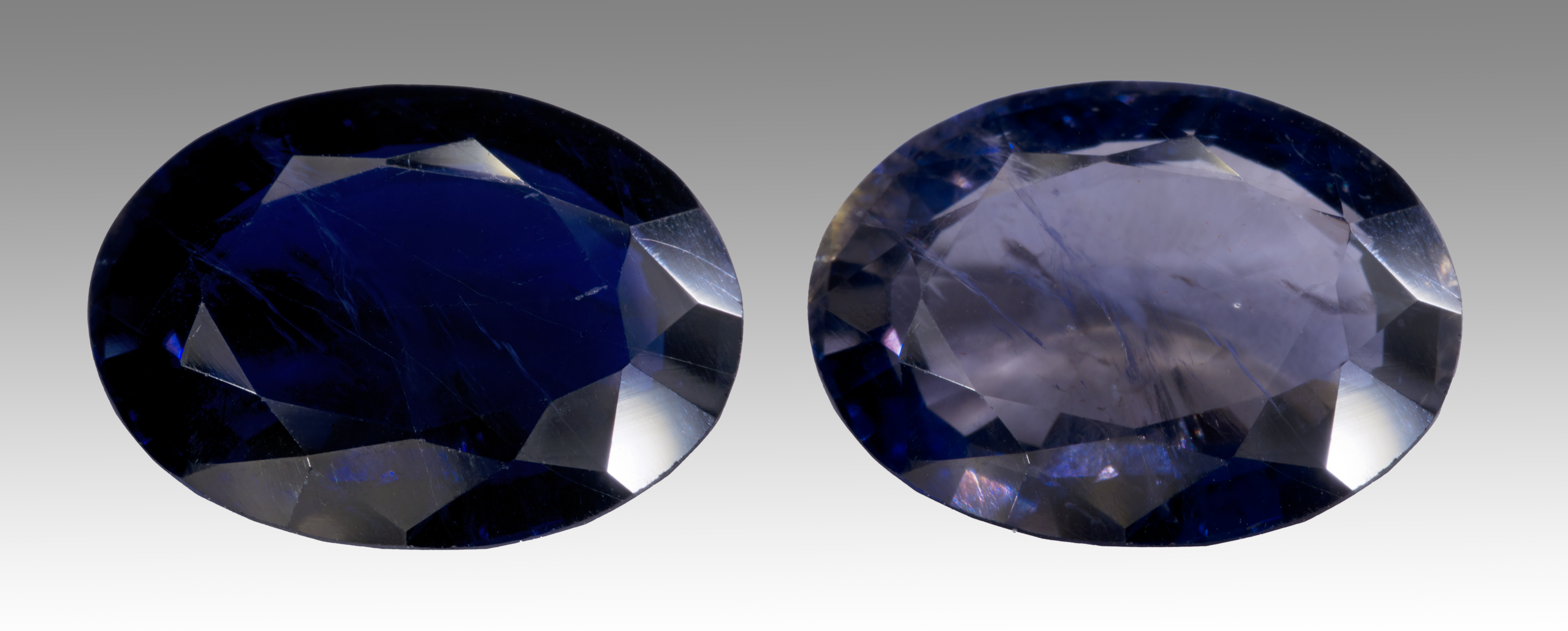 pleochroism of Cordierite - Same specimen. Left image in polarized light. Locality : Coimbatore District, Chennai (Madras), Tamil Nadu, India Size: 1.38 x 1.01 x 0.57 - 5.10cts